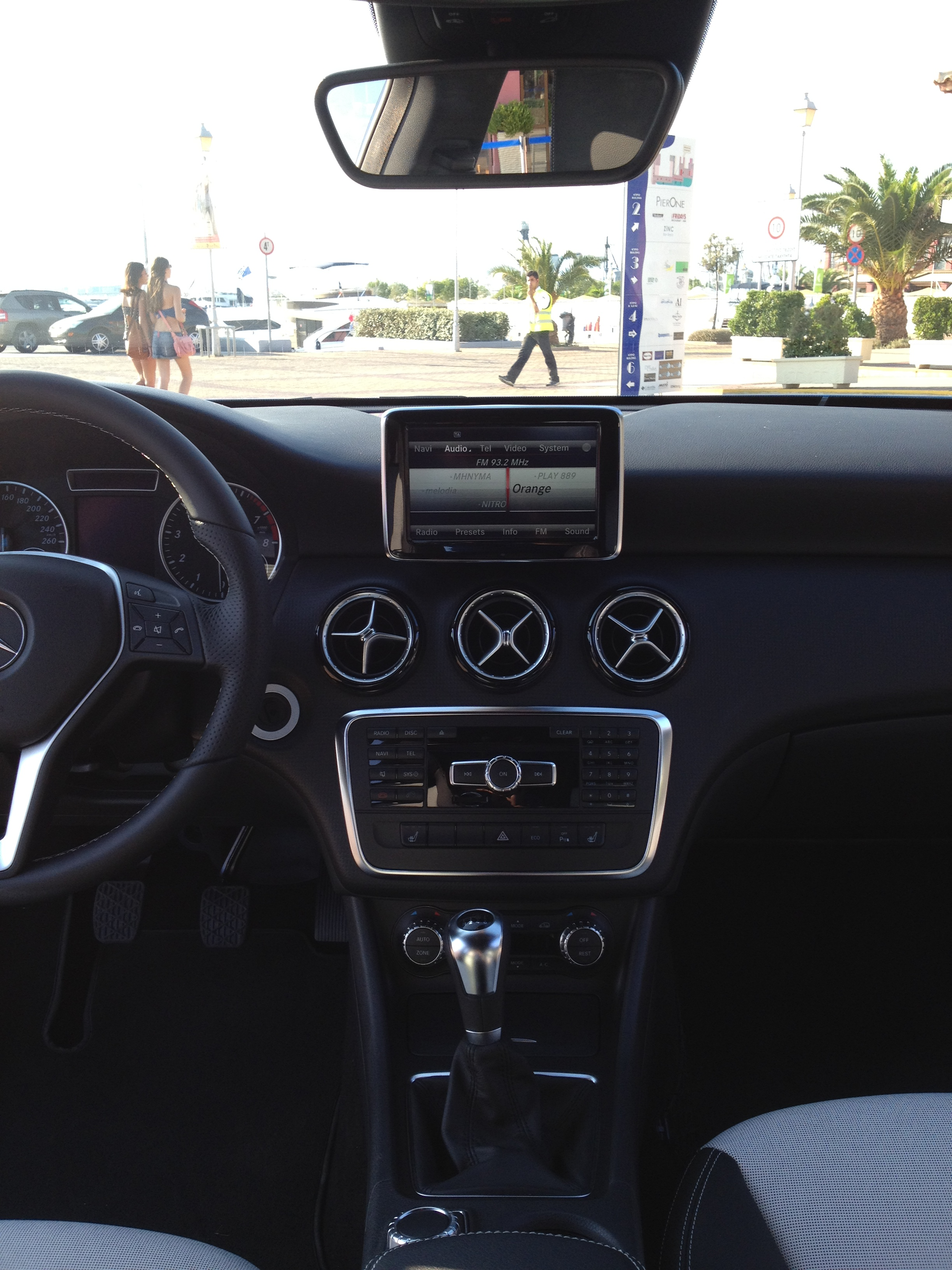 Mercedes A-Class 2012.